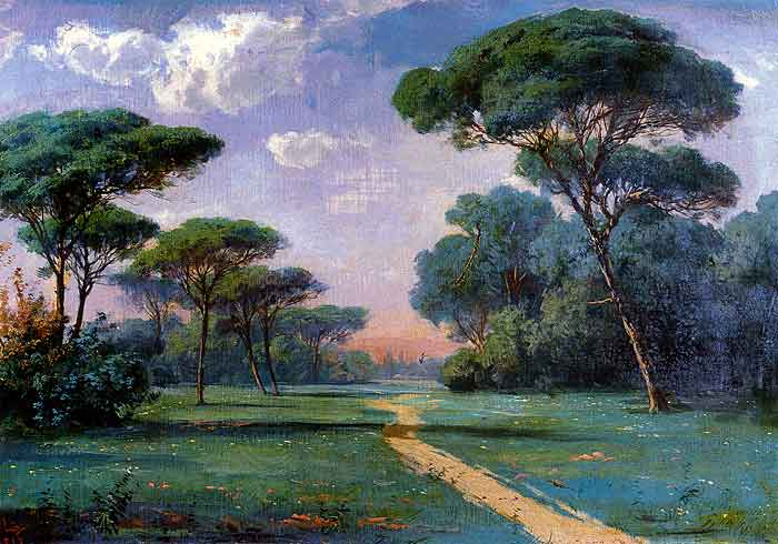 Landscape, Hoca Ali Rıza, oil on canvas, 43.5 x 65 cm